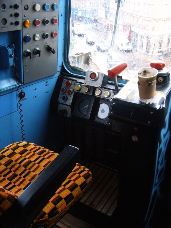 From my London Underground Tube Diary